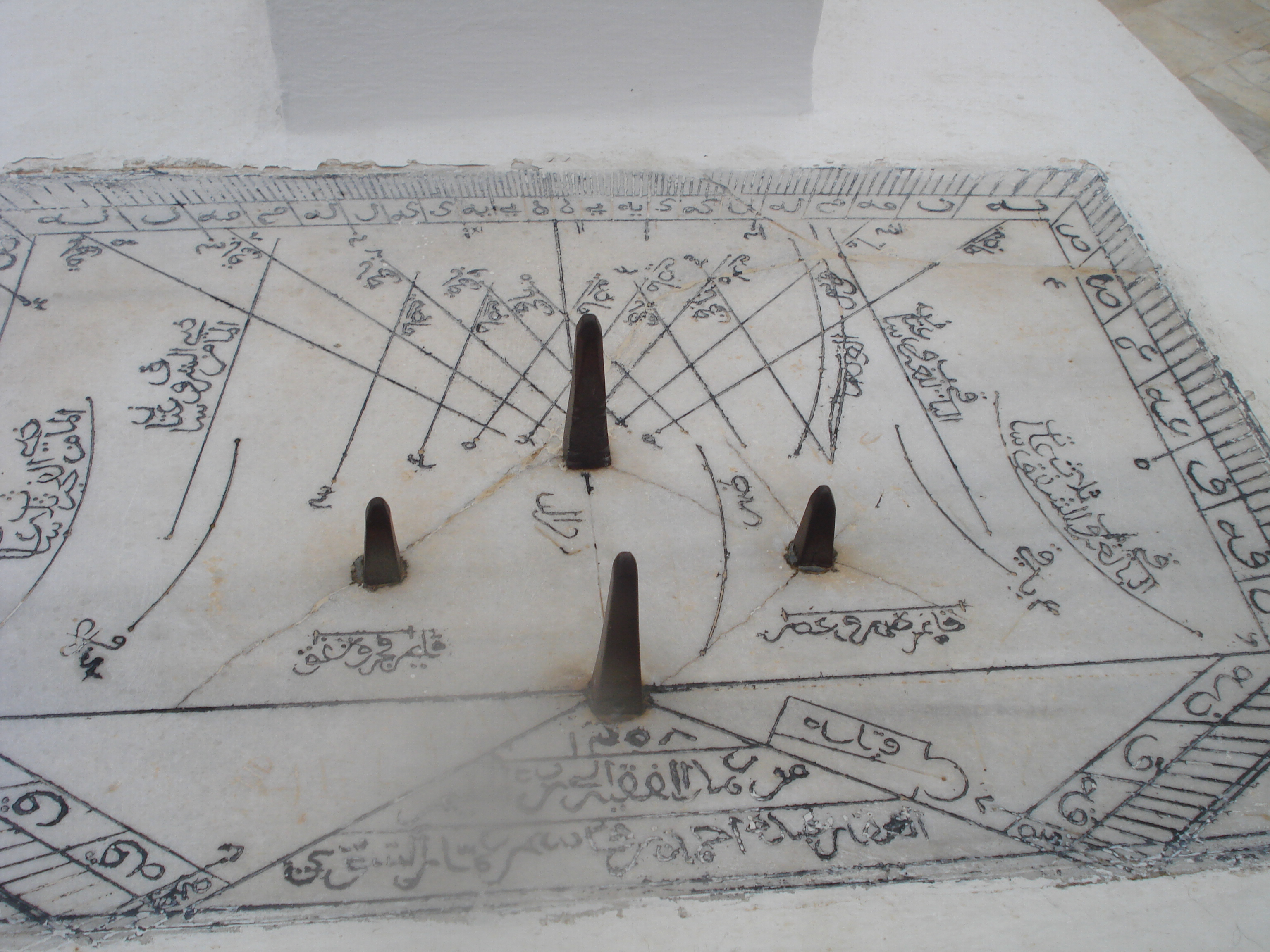 Sundial located at the center of the Great Mosque of Kairouan (Tunisia)